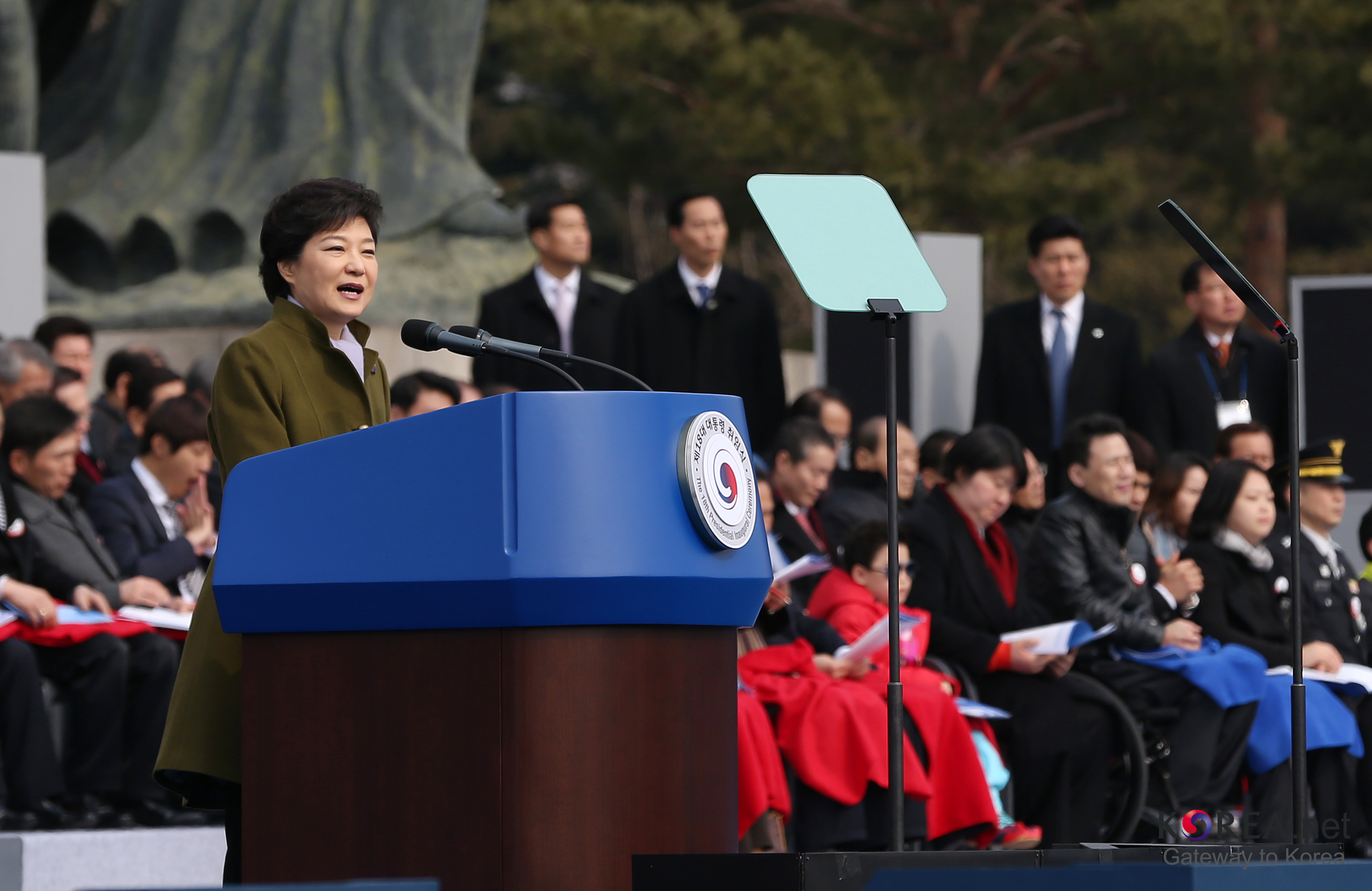 The inauguration ceremony for Park Geun-hye, South Korea's 18th, and first female, President.